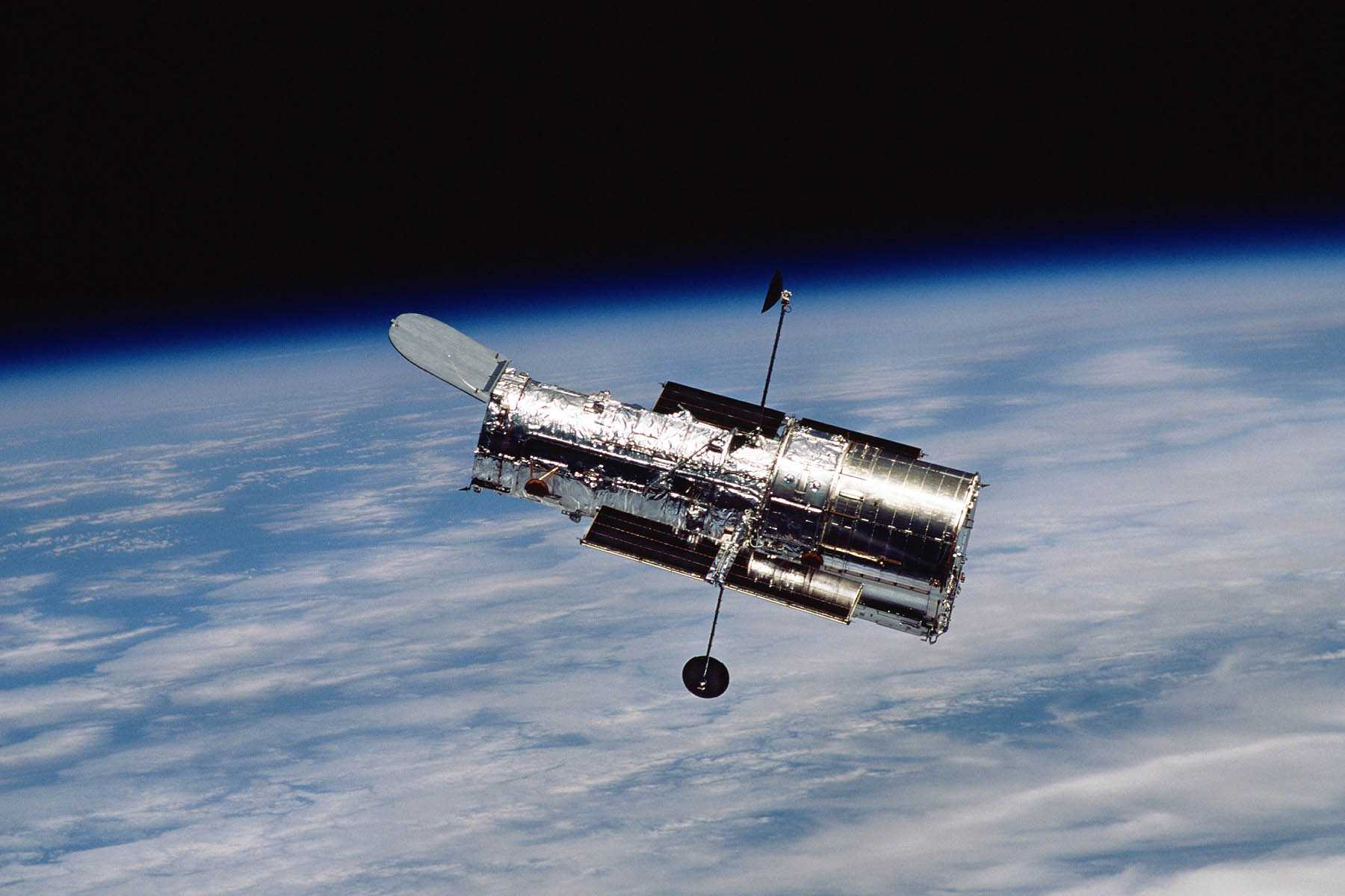 Hubble space telescope in space. Note the two high gain antennas